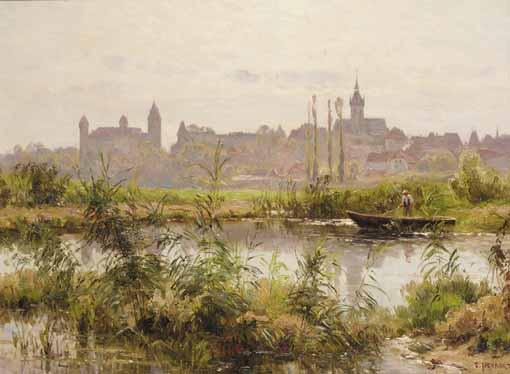 Marie-Victor-Emile Isenbart